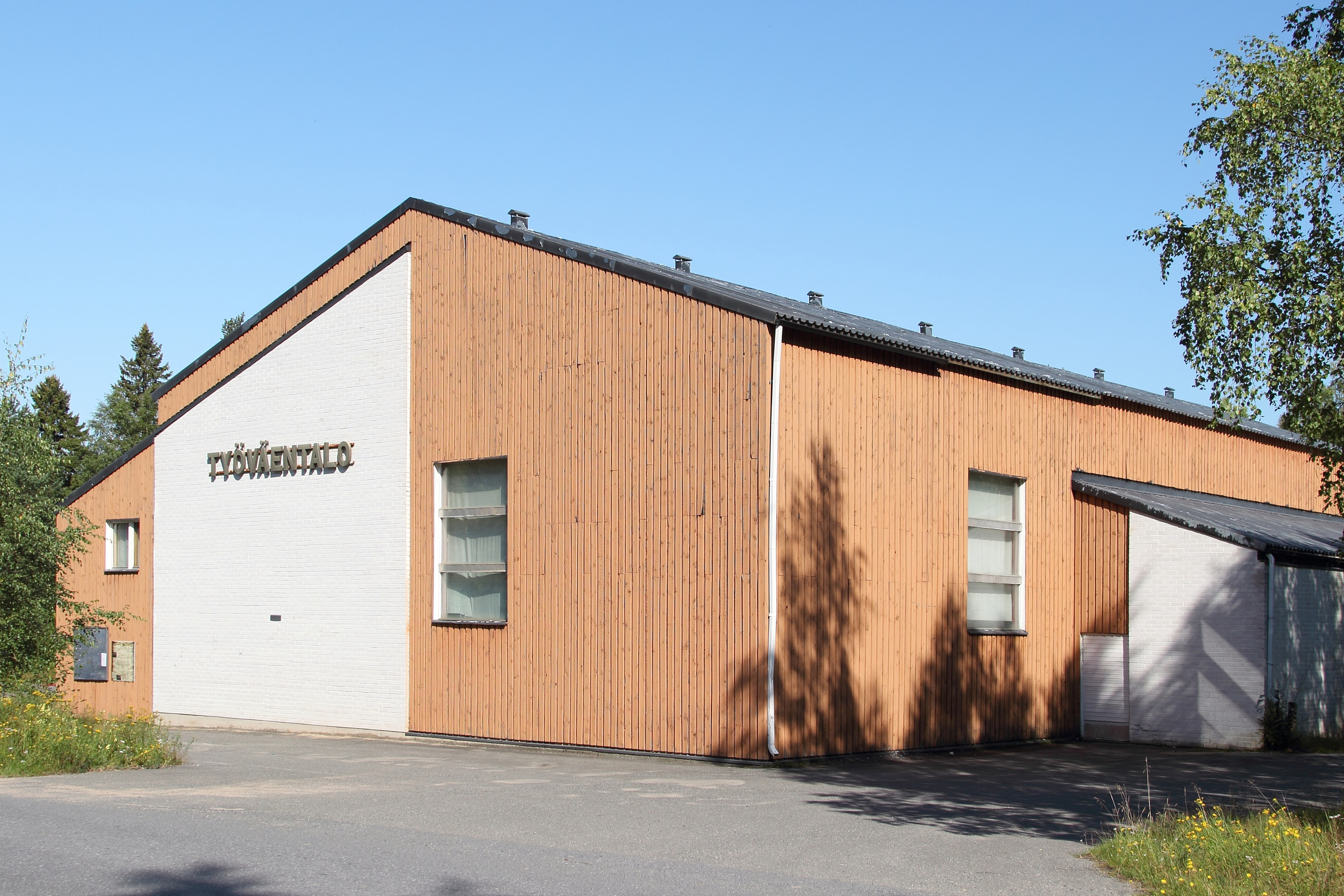 Martinnimen työväentalo was a labour movement community building in the Martinnime district of Oulu. The building was destroyed by a fire during the night between 28th and 29th of March 2020. The building was completed in 1984.